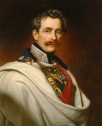 Portrait of Prince Karl Theodor of Bavaria (1795–1875). The prince wears the uniform of Colonel/Proprietor of the 1st Cuirassier Regiment, which bore his name.